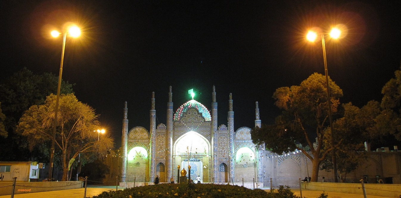 Salaam'Gaah Street in Qazvin City